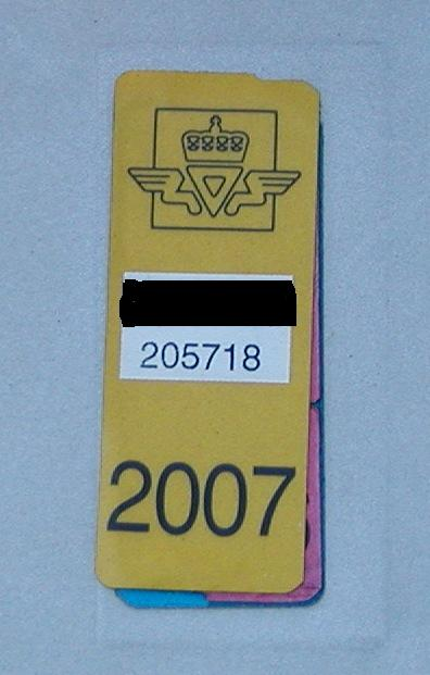 Norwegian plate sticker for technical control and tax fee.